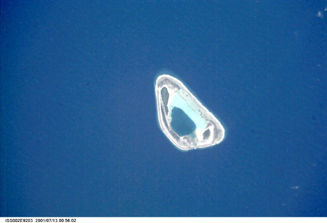 NASA Astronaut Image of Nukutepipi (Tuamotu Archipelago, French Polynesia) in the Pacific Ocean